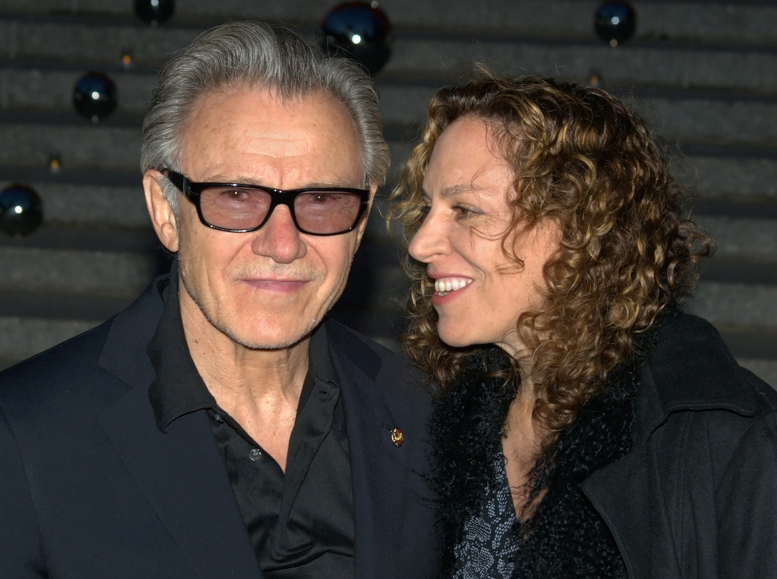 Harvey Keitel and wife at the 2010 Tribeca Film Festival.